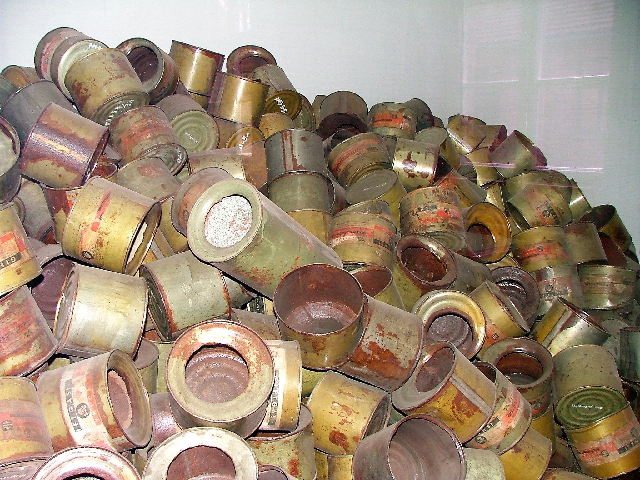 Auschwitz - Poland Auschwitz concentration camp